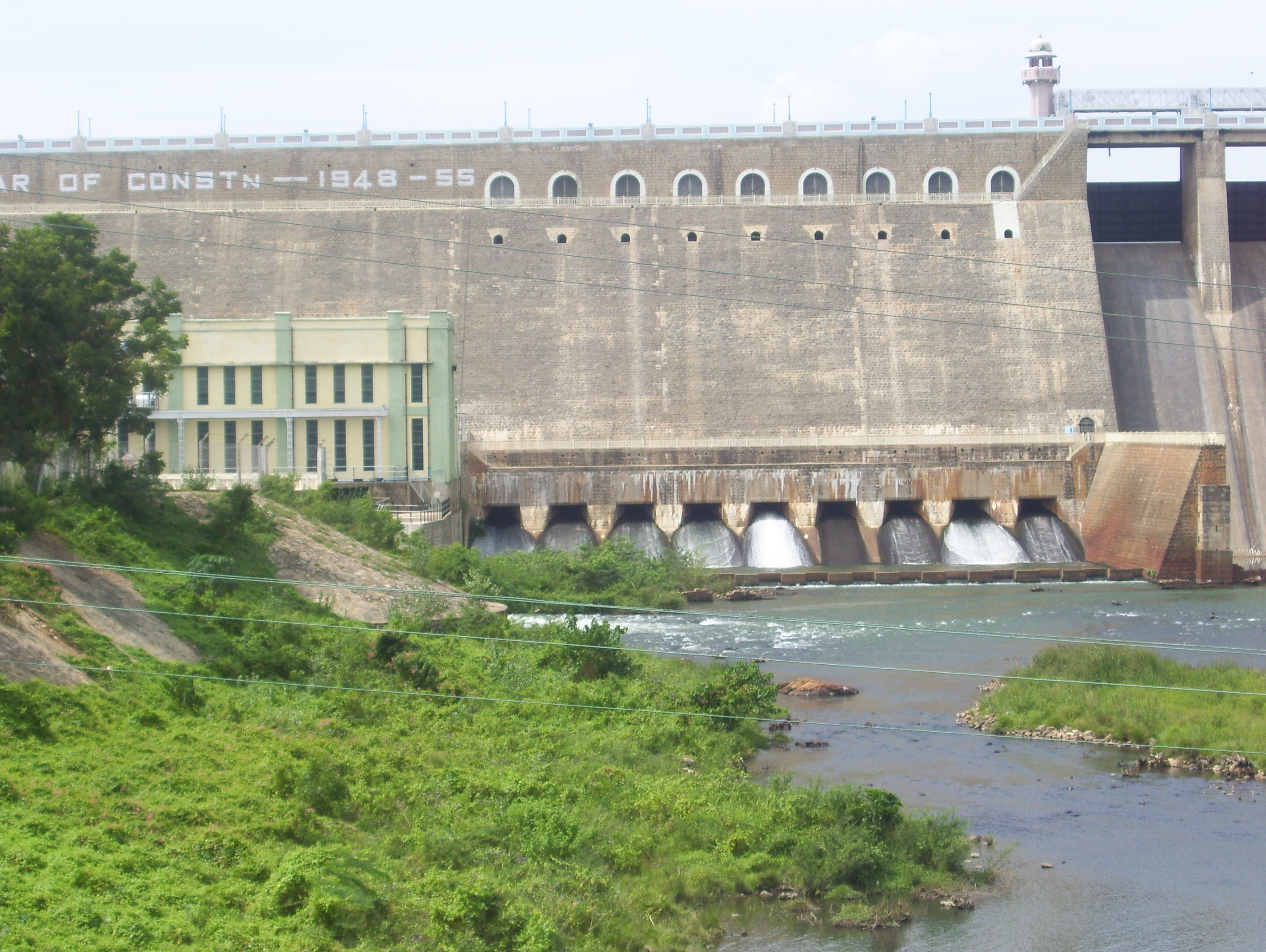 A view from the bridge across the Bhavani Sagar Dam